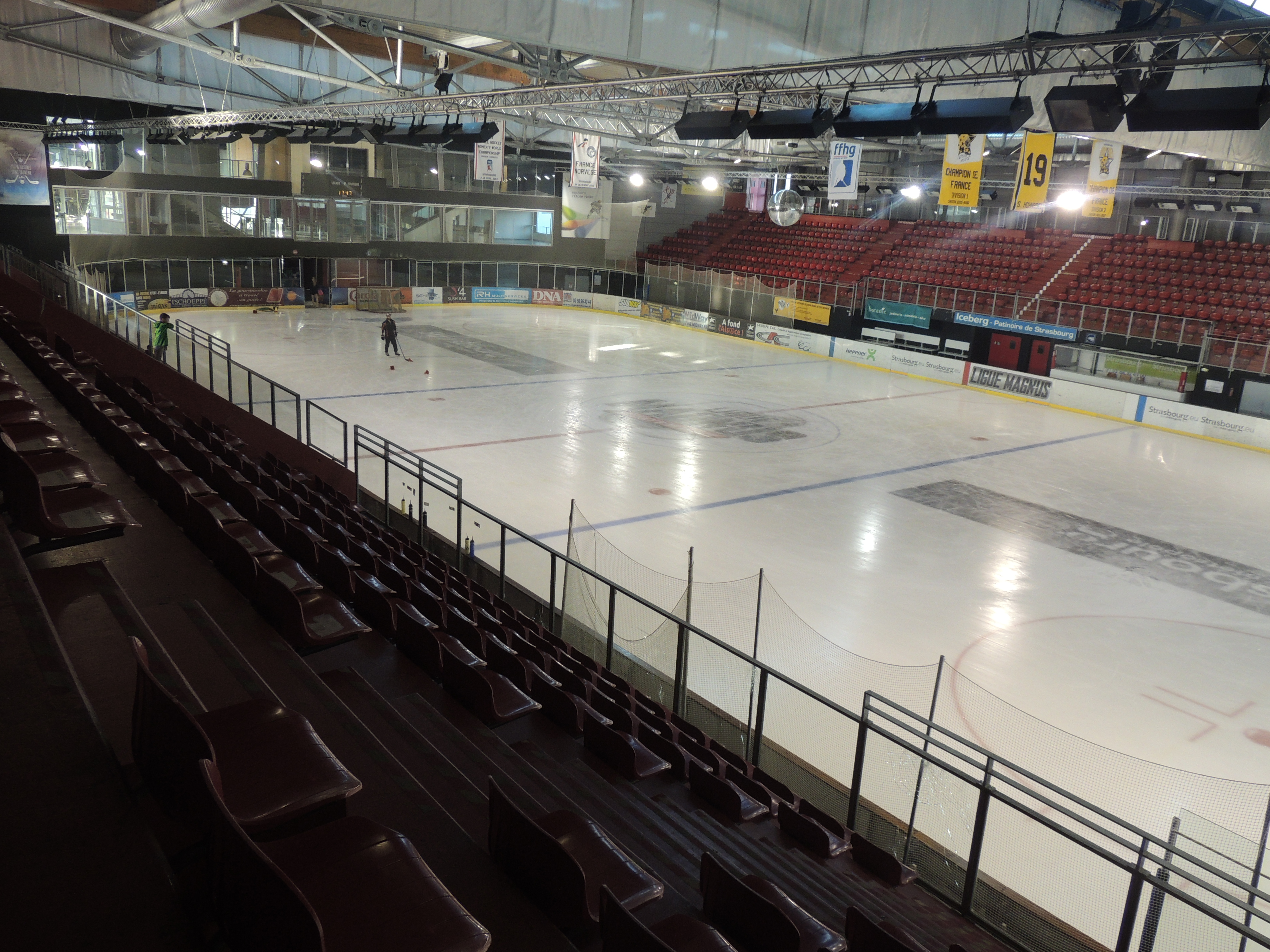 Inside the ice rink Iceberg in Strasbourg (France).